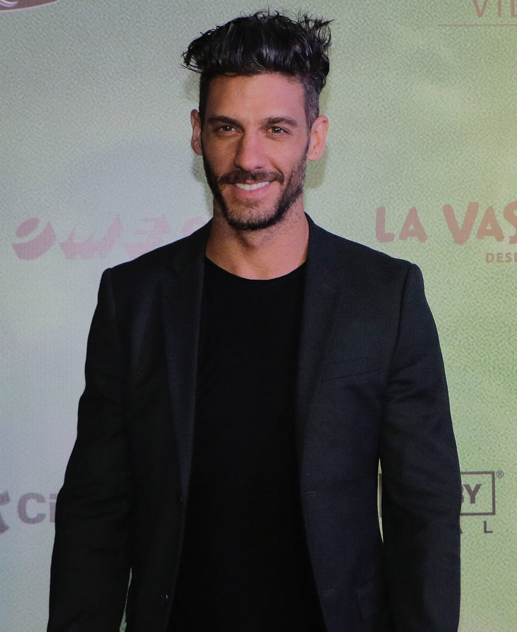 Miércoles 12 de septiembre de 2018.\r\rCinépolis Plaza Oasis. Premier de la película El día de la unión. Cuando México se hizo uno, dirigida por Kuno Becker y producida por Juan Aura. \r\rFotografía: Tania Victoria/ Secretaría de Cultura CDMX